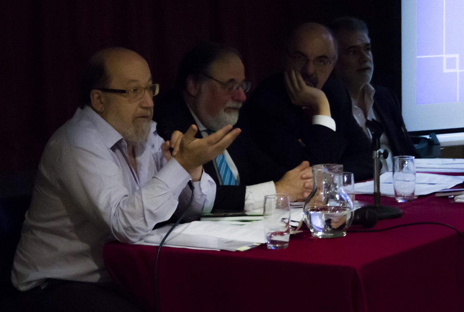 Eduardo Epszteyn